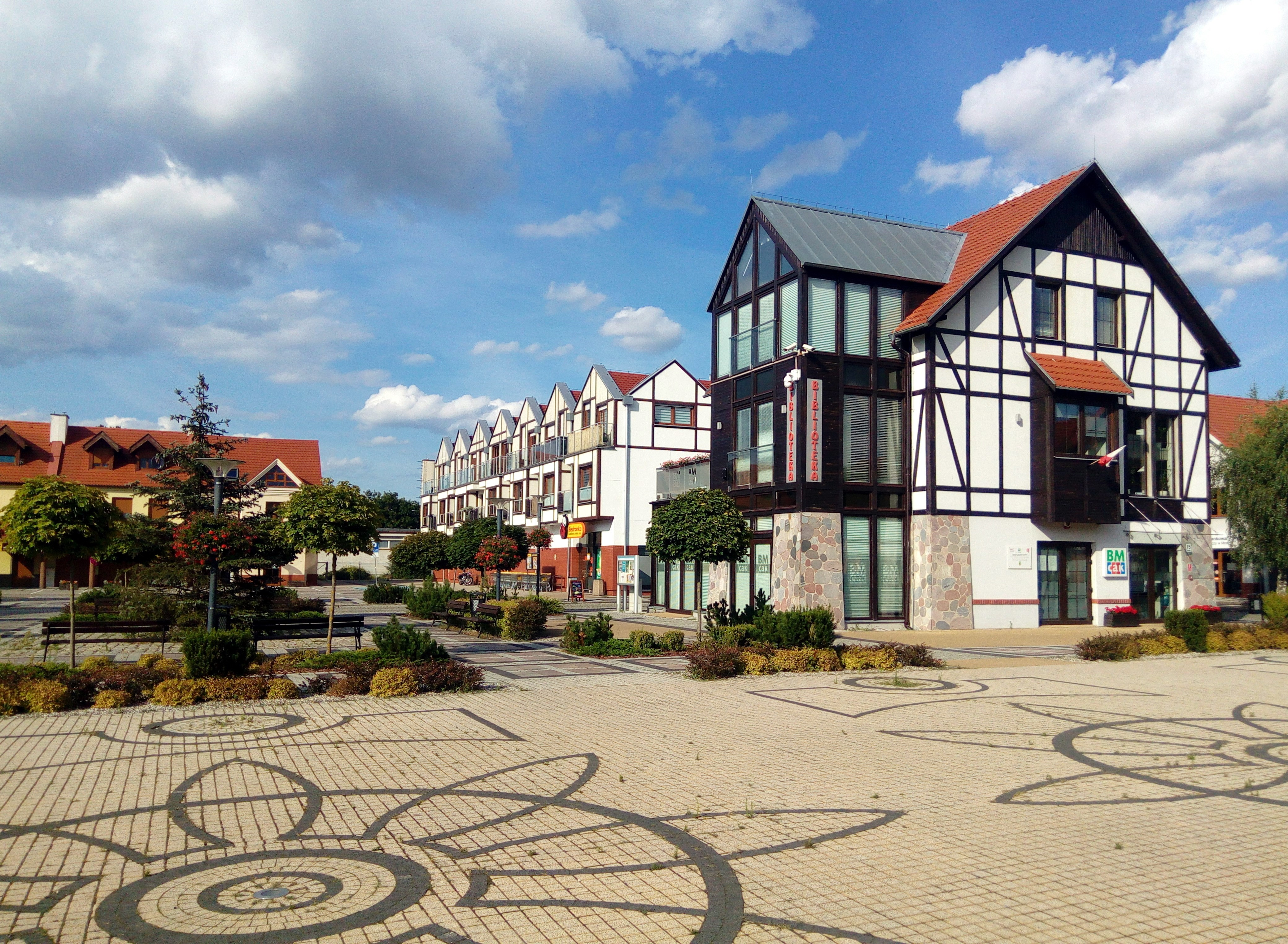 Market Square in Puszczykowo near Poznan, western Poland, with the historicist architecture from the years 2002-2012.